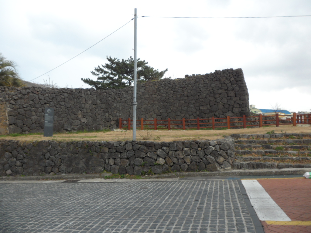 Jeju Fortress Site, situated in Jeju, South Korea, was construced for defending Jeju against enemy in Joseon Dynasty, and now remained the some part of the original form.